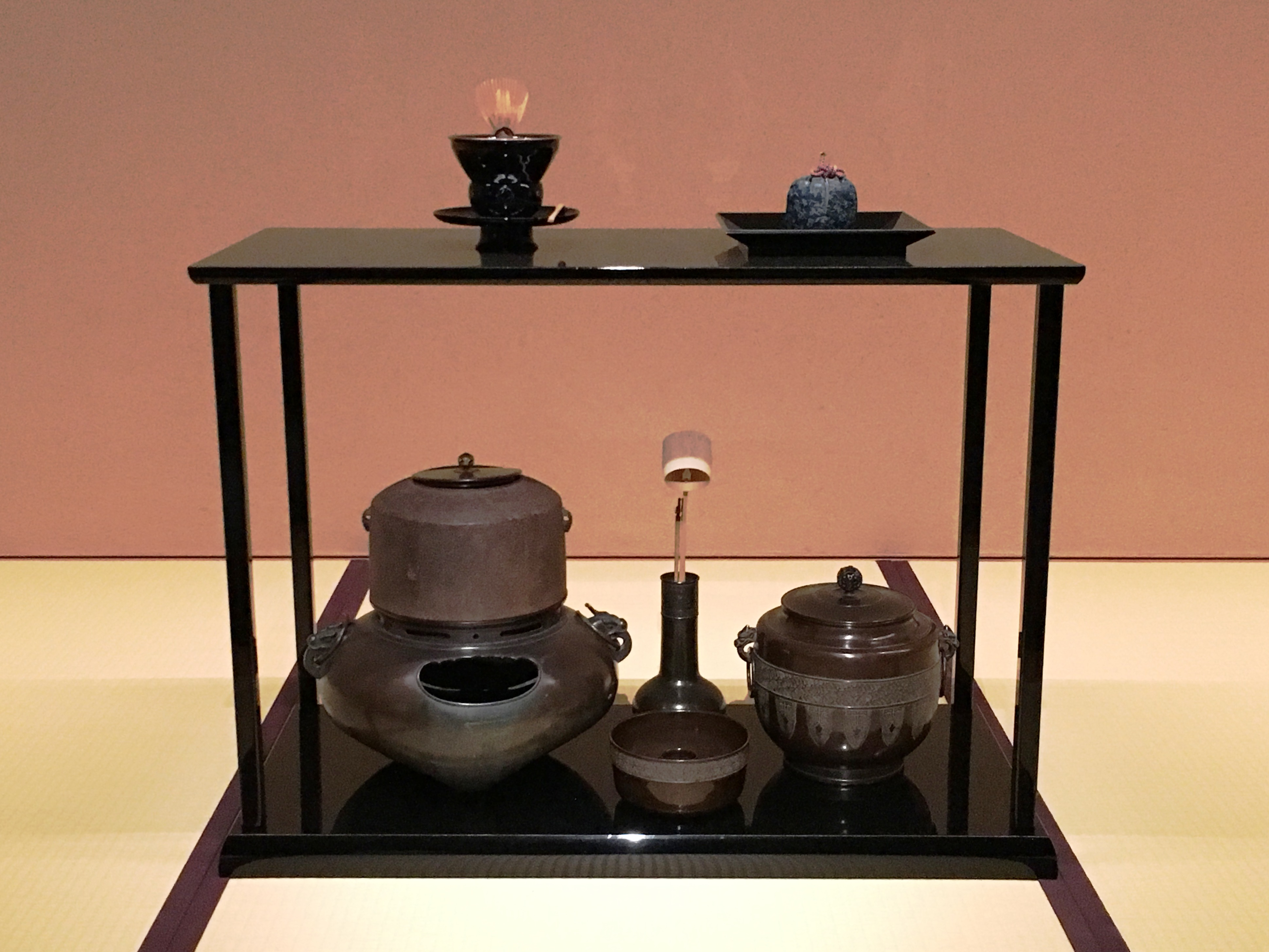 A set of tea ceremony utensils of the Mushakōji Senke school. MOA Museum of Art